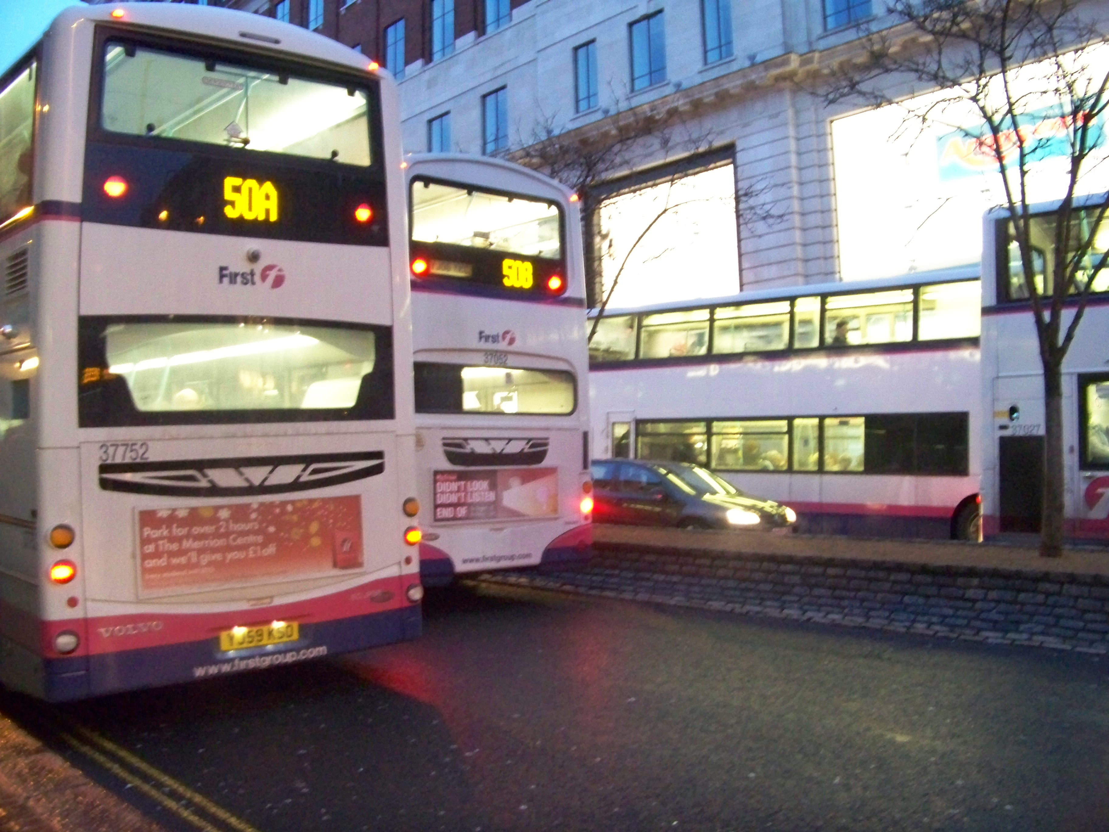 Buses on The Headrow, Leeds. Showing four First Leeds Volvo double deccar buses. Taken on the evening of Saturday the 16th of January 2010.